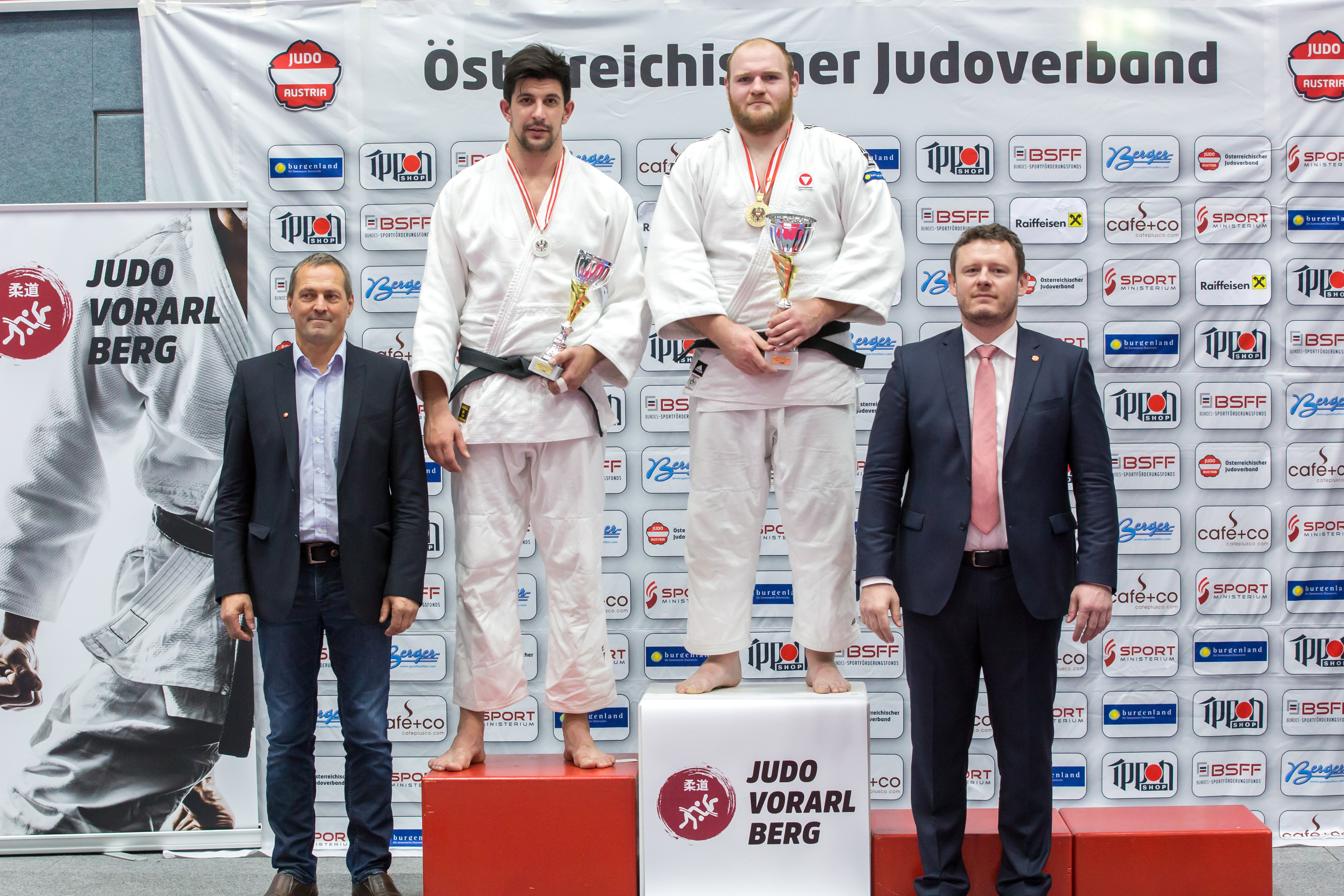 Austrian Judo Championships 2017 in Hard Award Ceremonies +100 kg: 1. Place: Daniel Allerstorfer 2. Place: MRUK Andreas